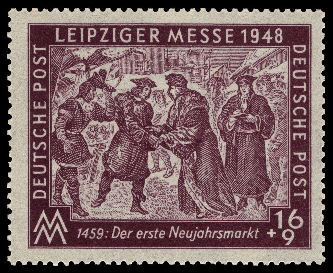 series of stamps of the Soviet occupation zone, Leipzig Fall Trade Fair 1948 Ausgabepreis: 16+9 Pfennig First Day of Issue / Erstausgabetag: 29. August 1948 Michel-Katalog-Nr: 198 (Alliierte Besatzung (Sowjetische Zone))